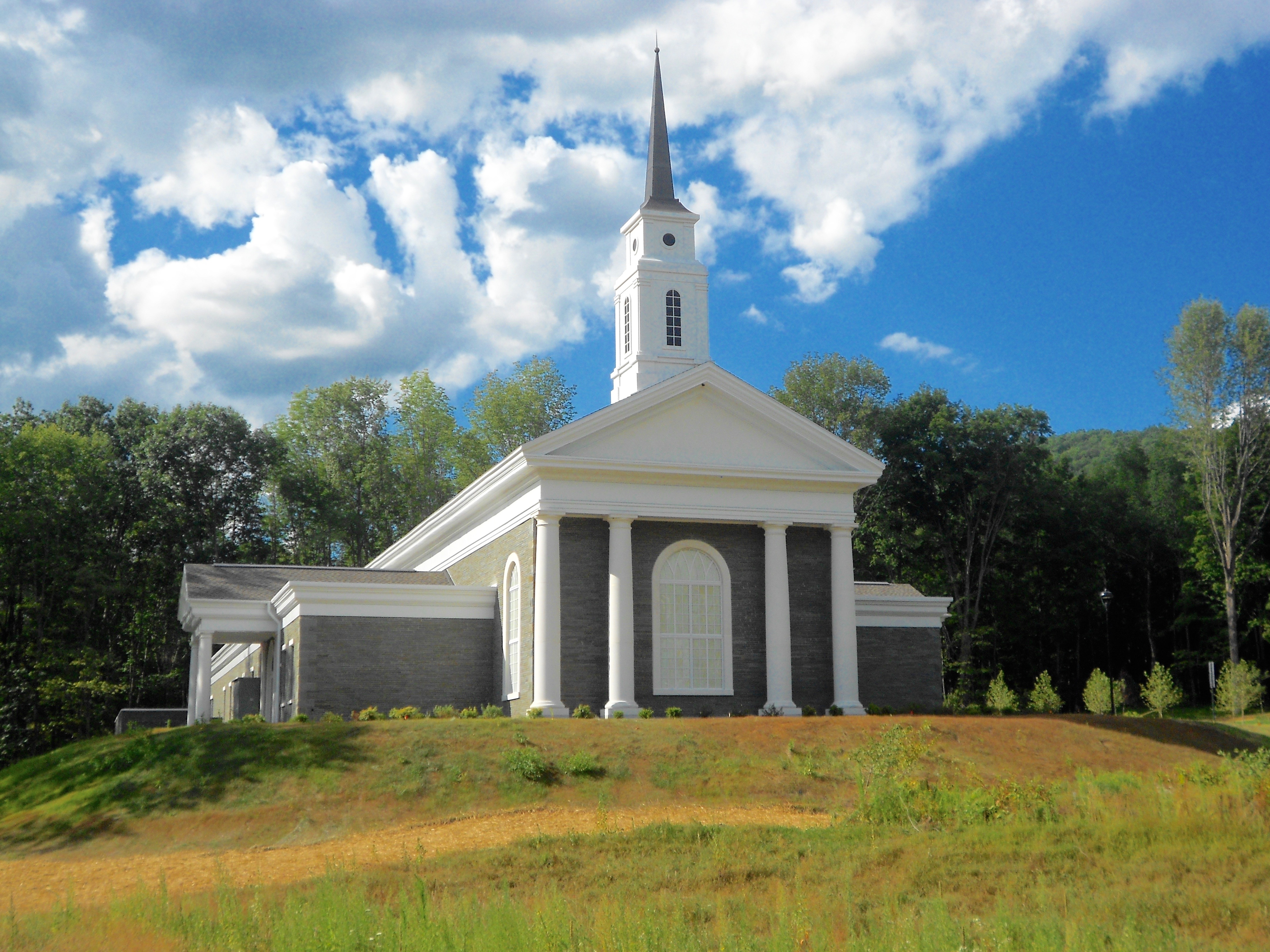 A meetinghouse of The Church of Jesus Christ of Latter-day Saints in Oakland Township, Susquehanna County, Pennsylvania. This meetinghouse also serves a dual role as a visitors' center for the "Aaronic Priesthood Restoration Site".